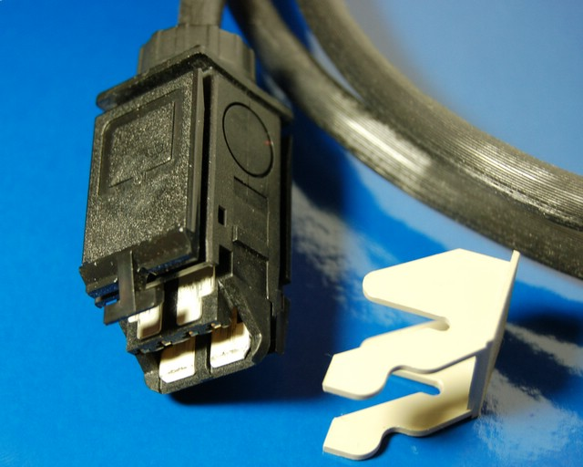 Typical connector used in IBM structured cabling, which was used for Token Ring networks. Unlike almost all other electrical connectors, there are no male and female versions of the connector, two identical connectors can be coupled together. This one is on a drop cable (i.e PC to wall socket). After coupling the connector, the white plastic piece can optionally be inserted to completely lock the connection.